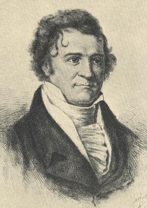 William Wirt (November 8, 1772 – February 18, 1834)